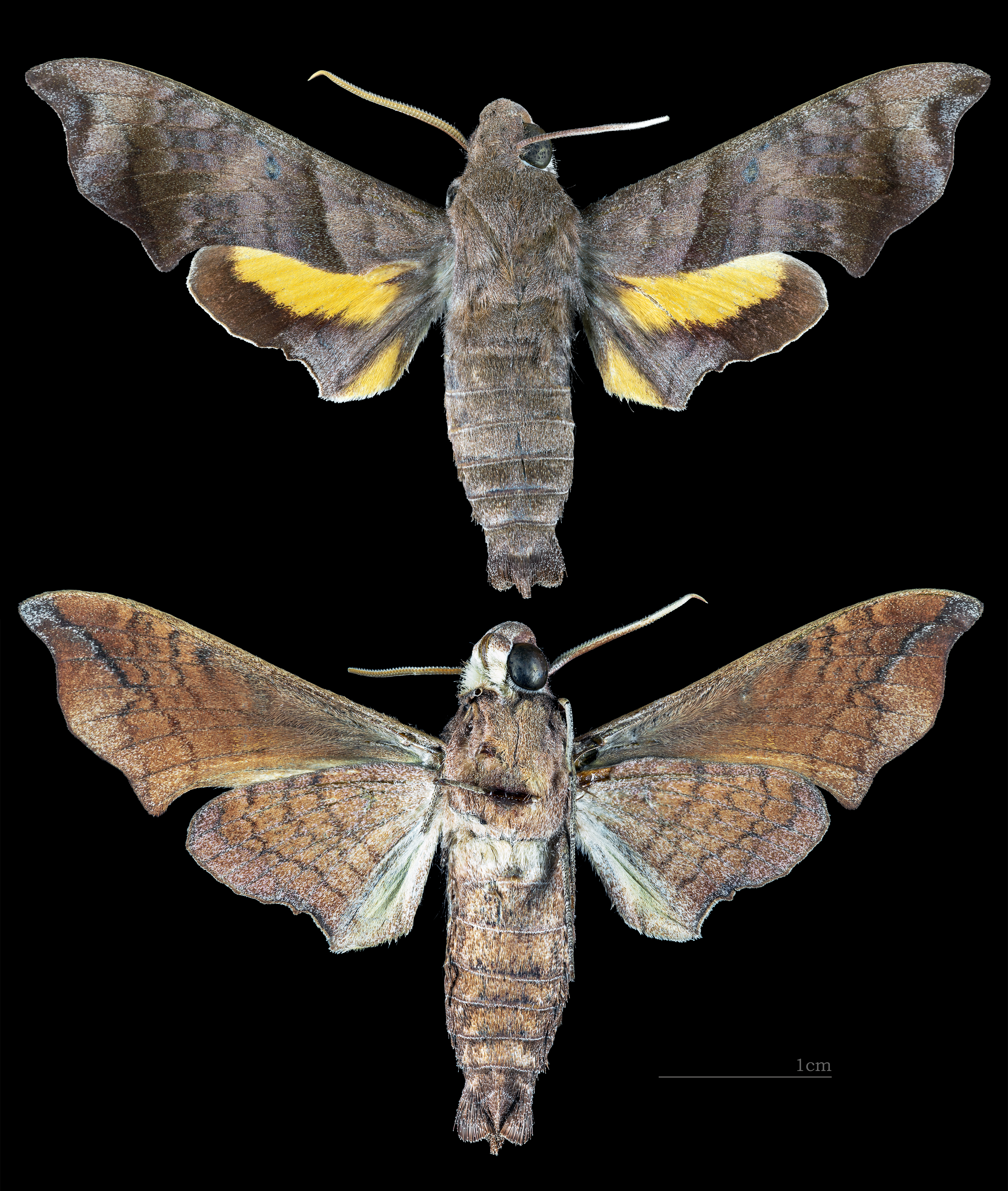 Perigonia pallida - Two views of same specimen Collection of the Mathematician Laurent Schwartz